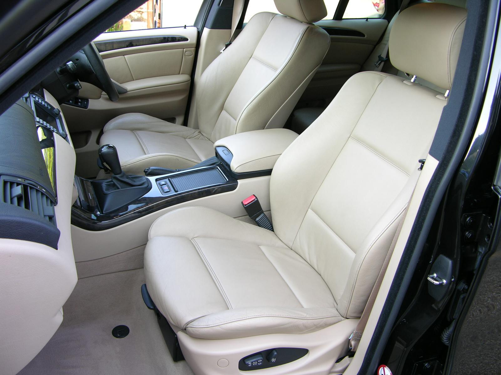 This car is for sale. Please contact us at or visit for more information.